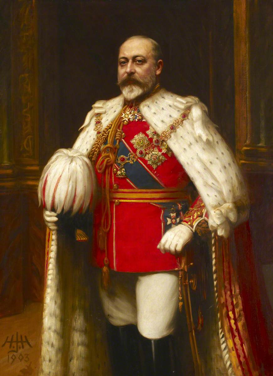 King Edward VII (1841–1910)